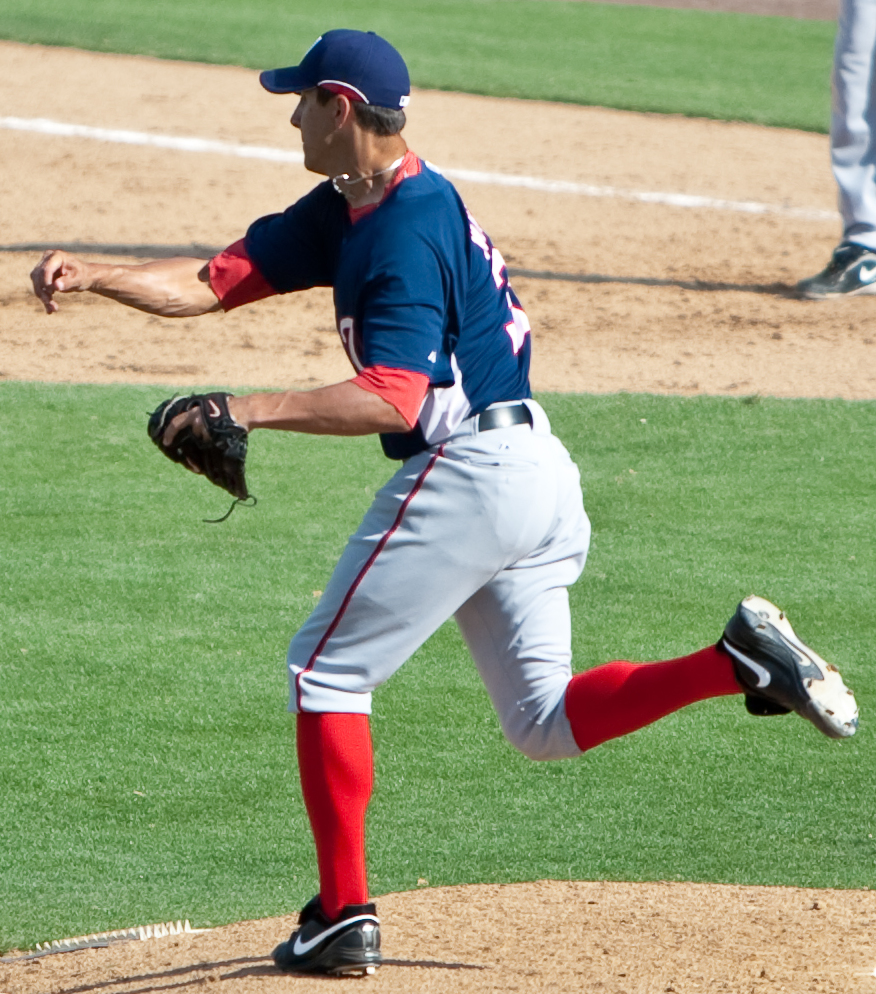 Ryan Wagner of the Washington Nationals fields a hit and throws the ball to second base during a 2009 spring training game.